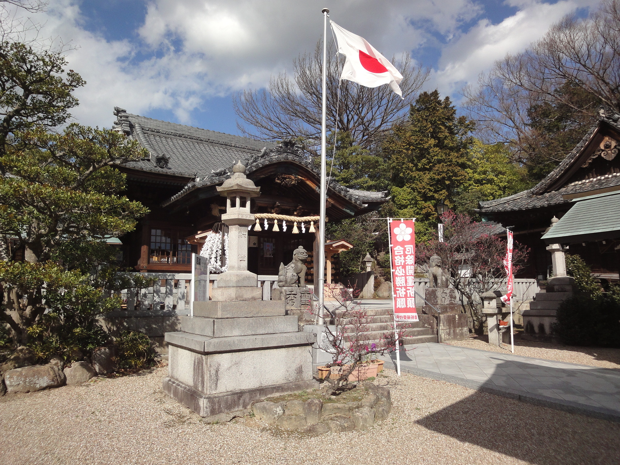 Honden of Okazaki Tenman-gu in Okazaki City, Aichi Prefecture, Japan.